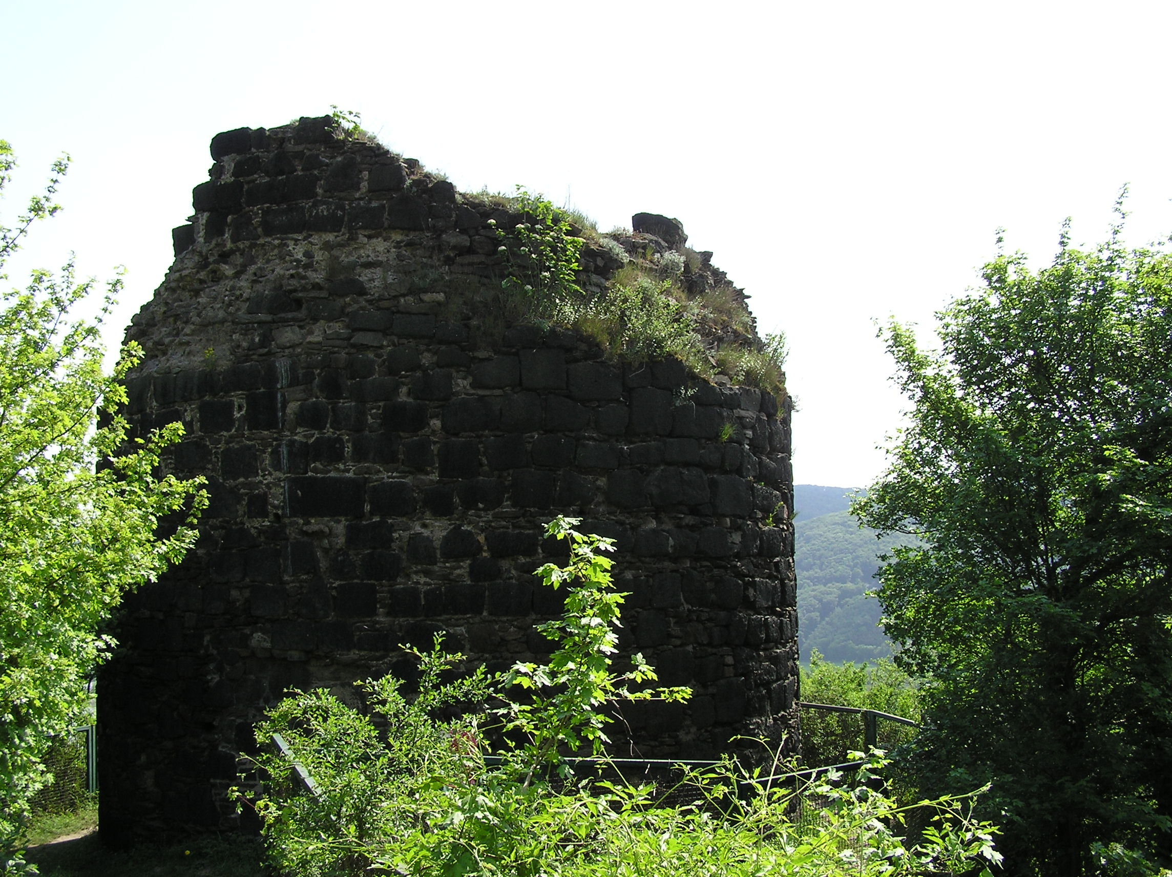 The remains of one of the round towers of the castle Hammerstein abover the Rhine, Germany.